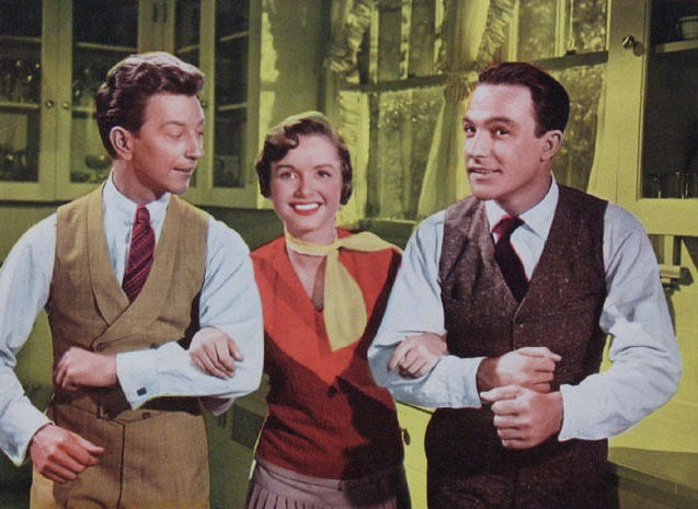 Lobby Card for the American musical film Singin' in the Rain (1952). The item has no copyright marks as can be seen in the links. At bottom right is a logo indicating the card was produced by a union print shop and Country of origin USA.